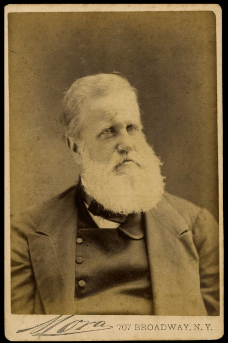 Emperor Dom Pedro II of Brazil in New York.